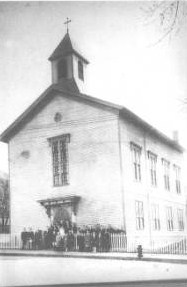 Blessed Virgin Polish National Catholic Church, first Polish church in Fall River, Mass., 1898-1973